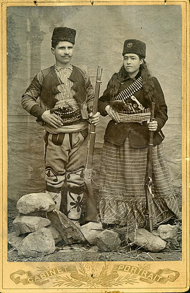 Gone Beginin and his wife Magda Gonova, both IMARO members